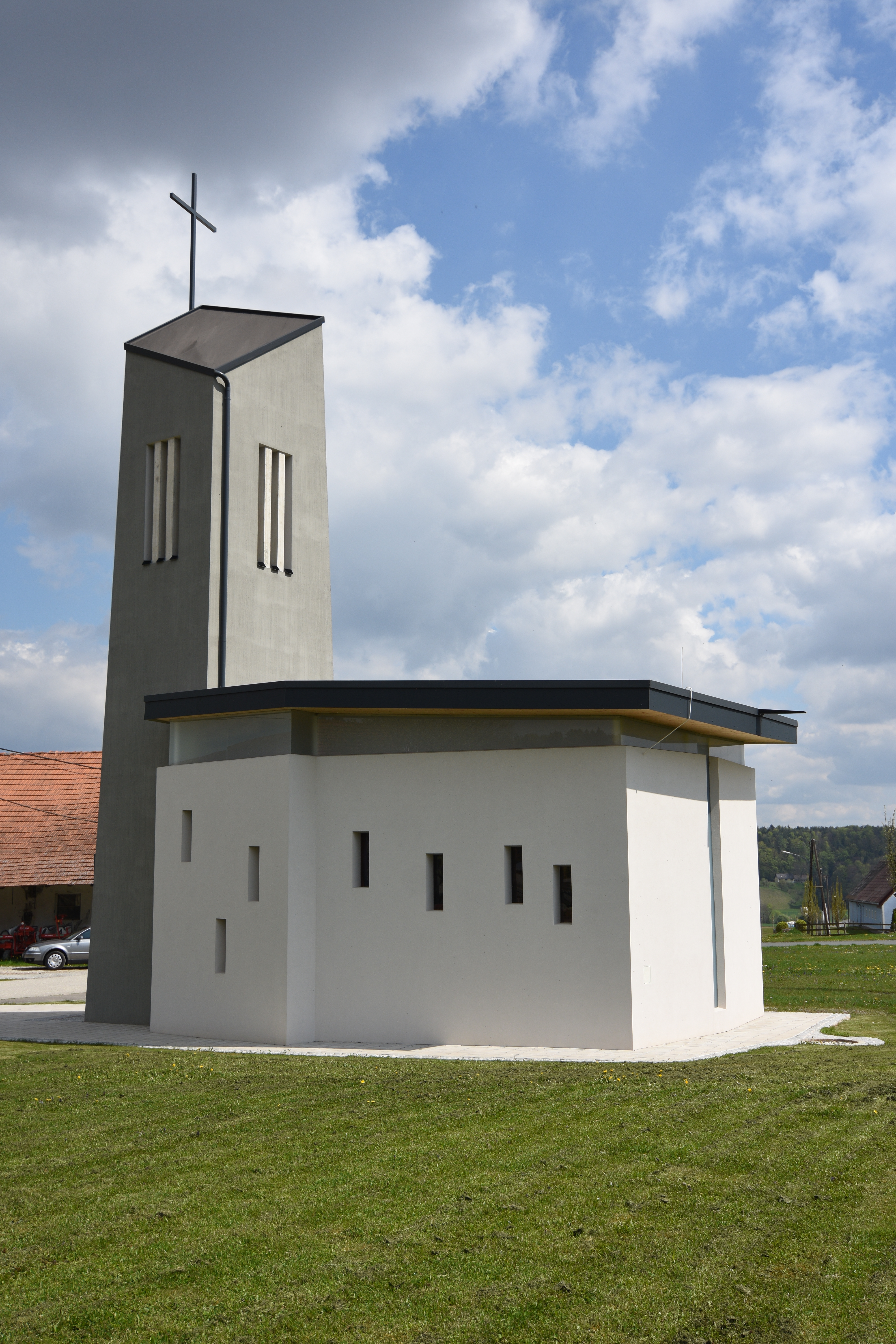 Chapel Manning